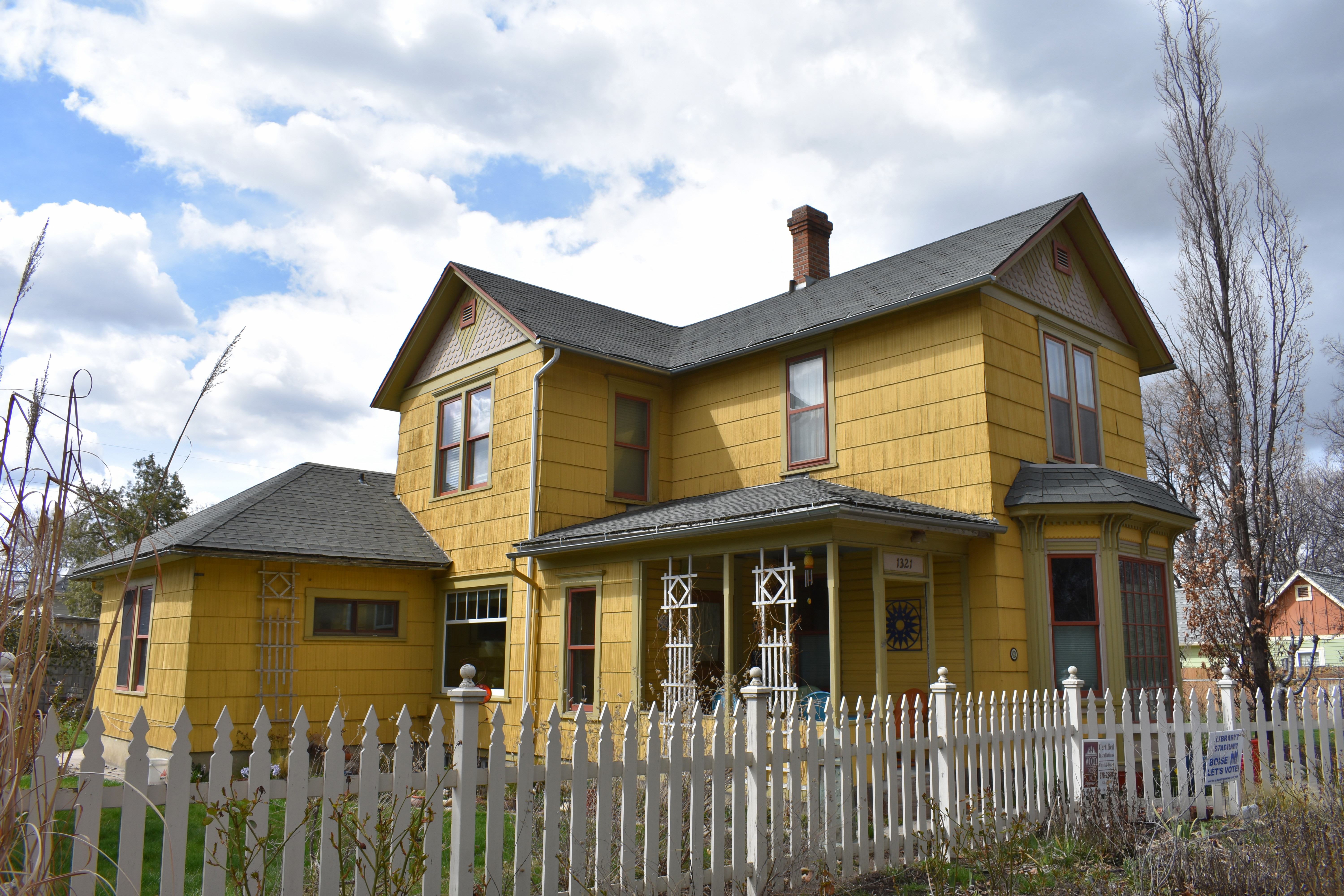 The Joseph Chitwood House in Boise, Idaho, was constructed in 1892 and is listed on the National Register of Historic Places.